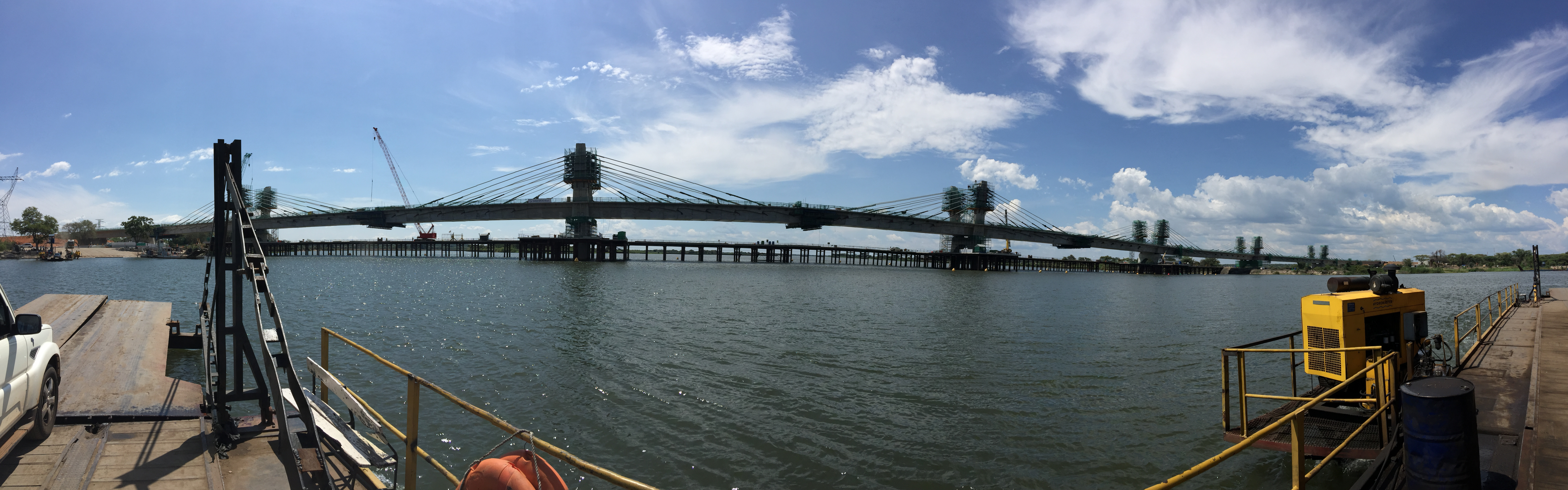 This is an image with the theme "Africa on the Move or Transport" from: Botswana